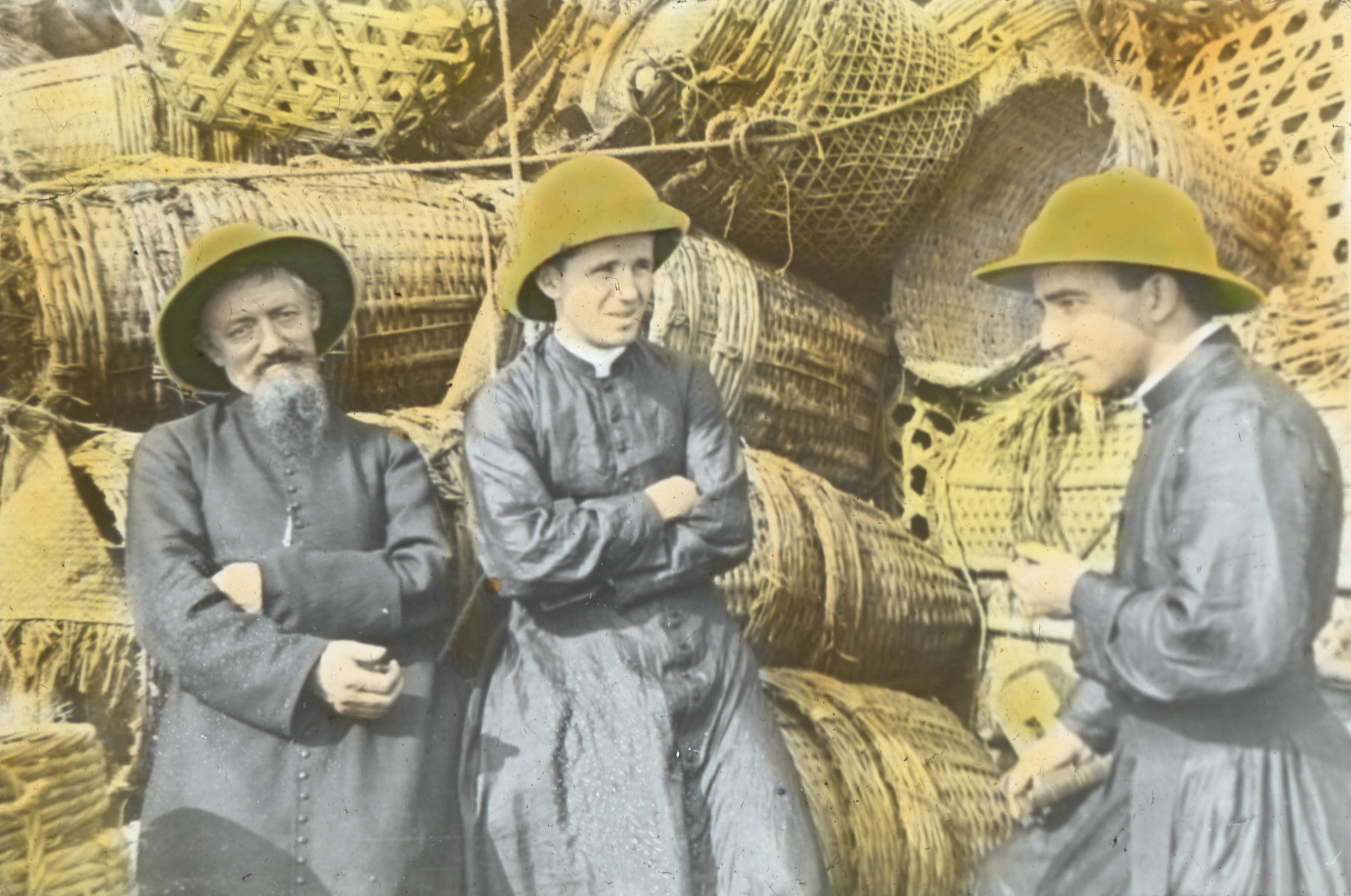 Group portrait of Maryknoll Fathers Walsh and Ford with Bishop Gauthier, China, ca. 1918-1938 Colorized lantern slide of Maryknoll Fathers James E. Walsh, second from left, and Francis X. Ford, third from left, with Bishop Auguste Gauthier (1868-1927). A large pile of woven baskets provides a backdrop. All three men wear cassocks and pith helmets. Photographer: Unknown Subject (keyword): clergy; group portraits Filename: MFB-LS0281 Coverage date: circa 1918/1938 Subject (unesco): clergy Part of collection: International Mission Photography Archive, ca.1860-ca.1960 Type: images Part of subcollection: Photographs of the Catholic Foreign Mission Society of America, Maryknoll, New York, 1912-1945 Part of repository: Maryknoll Mission Archives Repository name: Maryknoll Mission Archives Archival file: impa_Volume33/MFB-LS0281.tiff Repository address: Maryknoll Mission Archives, PO Box 305, Maryknoll, N.Y. 10545-0305 Geographic subject (country): China Geographic subject (continent): Asia Rights: Repository Date created: circa 1918/1938 Publisher (of the digital version): University of Southern California. Libraries Format (aat): lantern slides Legacy record ID: impa-m61035 Access conditions: File: MFB/LanternSlides/LS0281